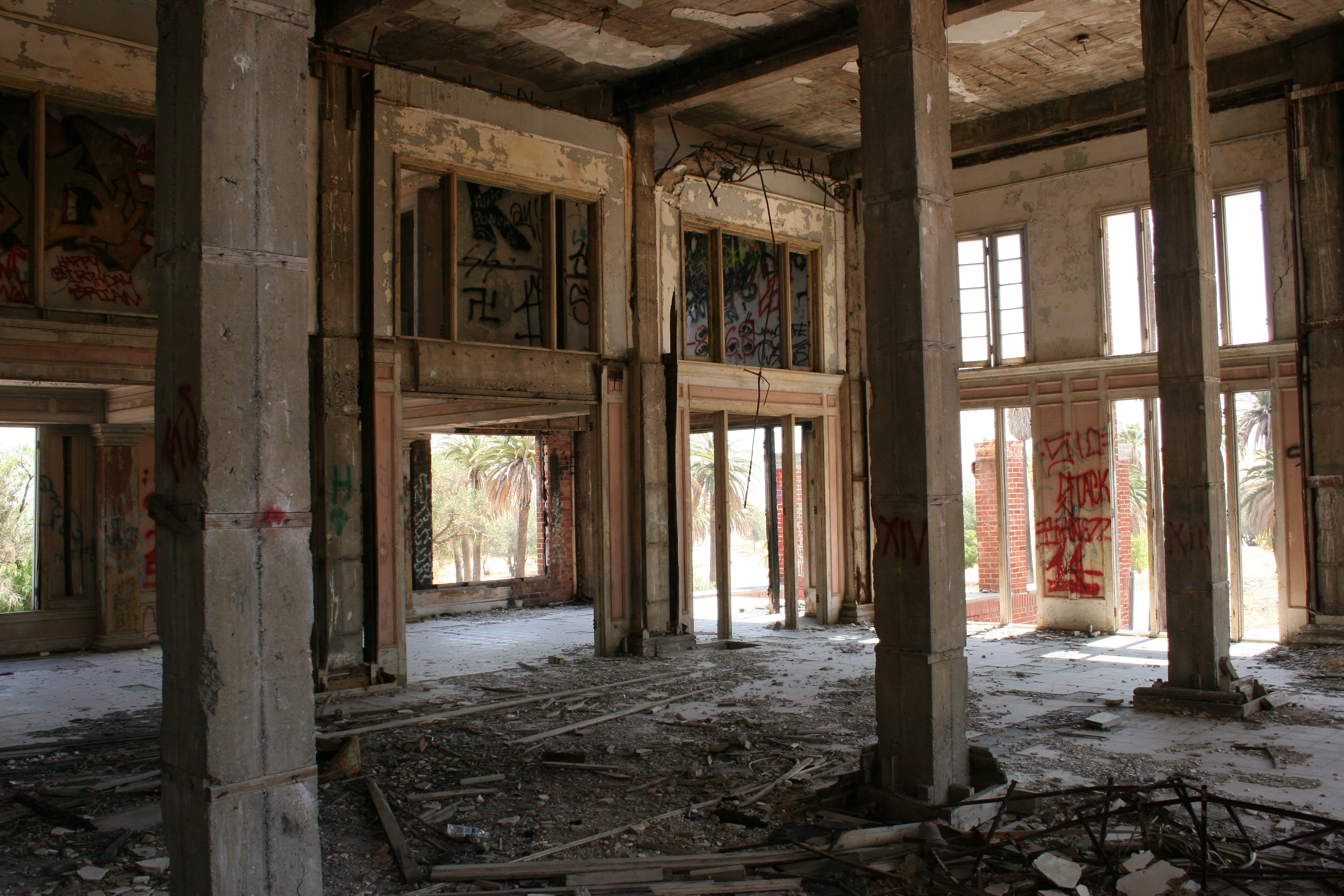 Byron Hot Springs Hotel, August 2008. This Hotel was part of a Resort frequented by Hollywood-stars and top athletes. Later it became Camp Tracy, a interrogation facility in WWII.